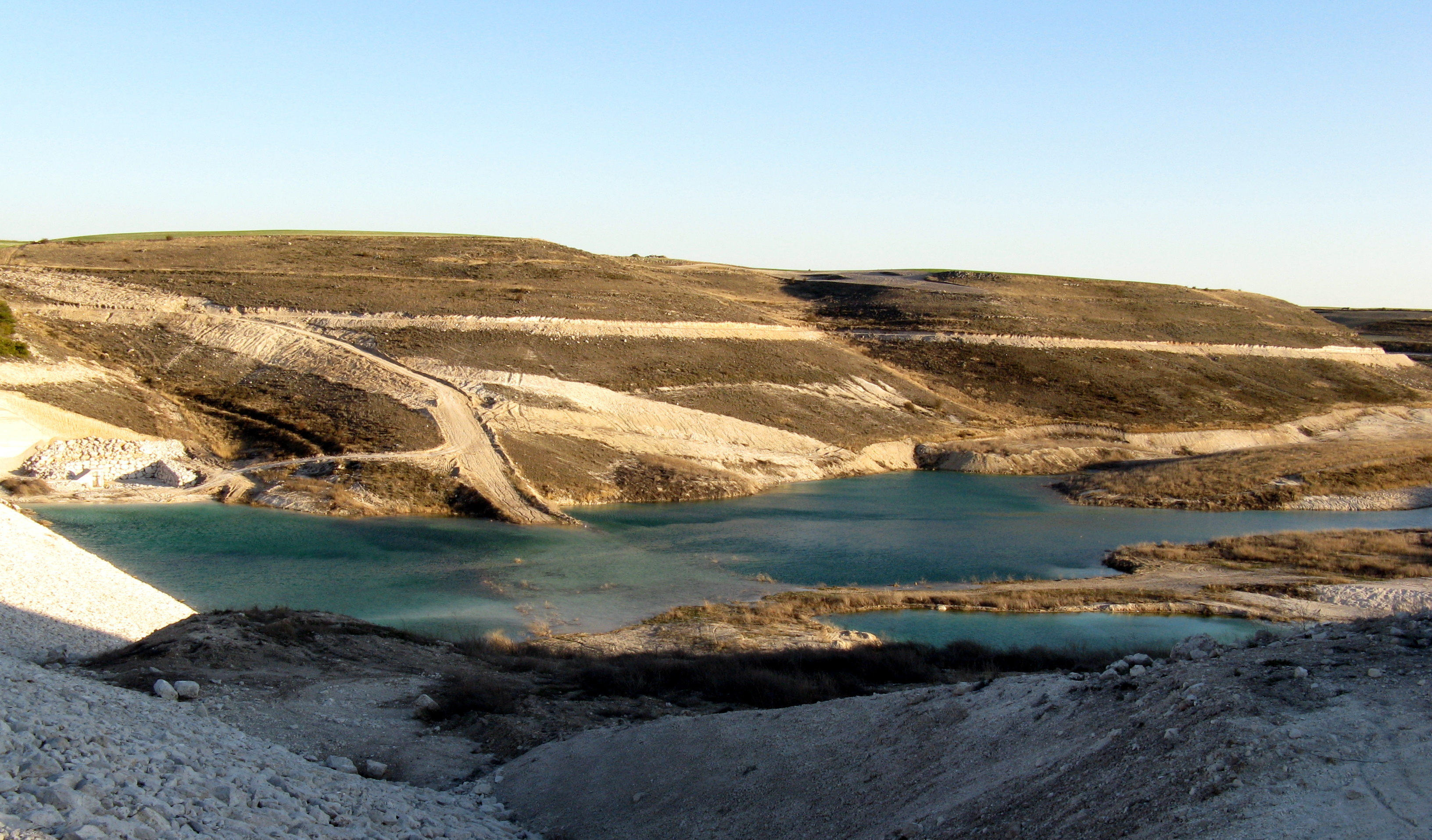 Dam of Valdemudarra, in the Duratón river near Peñafiel, Valladolid, Spain.